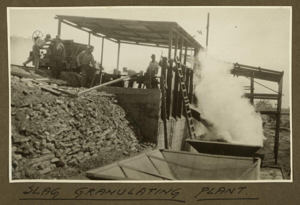 Slag granulating plant, Mt. Isa Mines, 1932